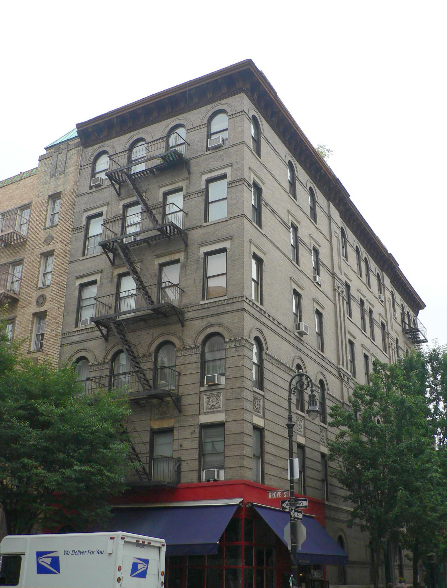 The Greenwich Village building seen in TV series Friends, 90 Bedford Street, New York, 10014.